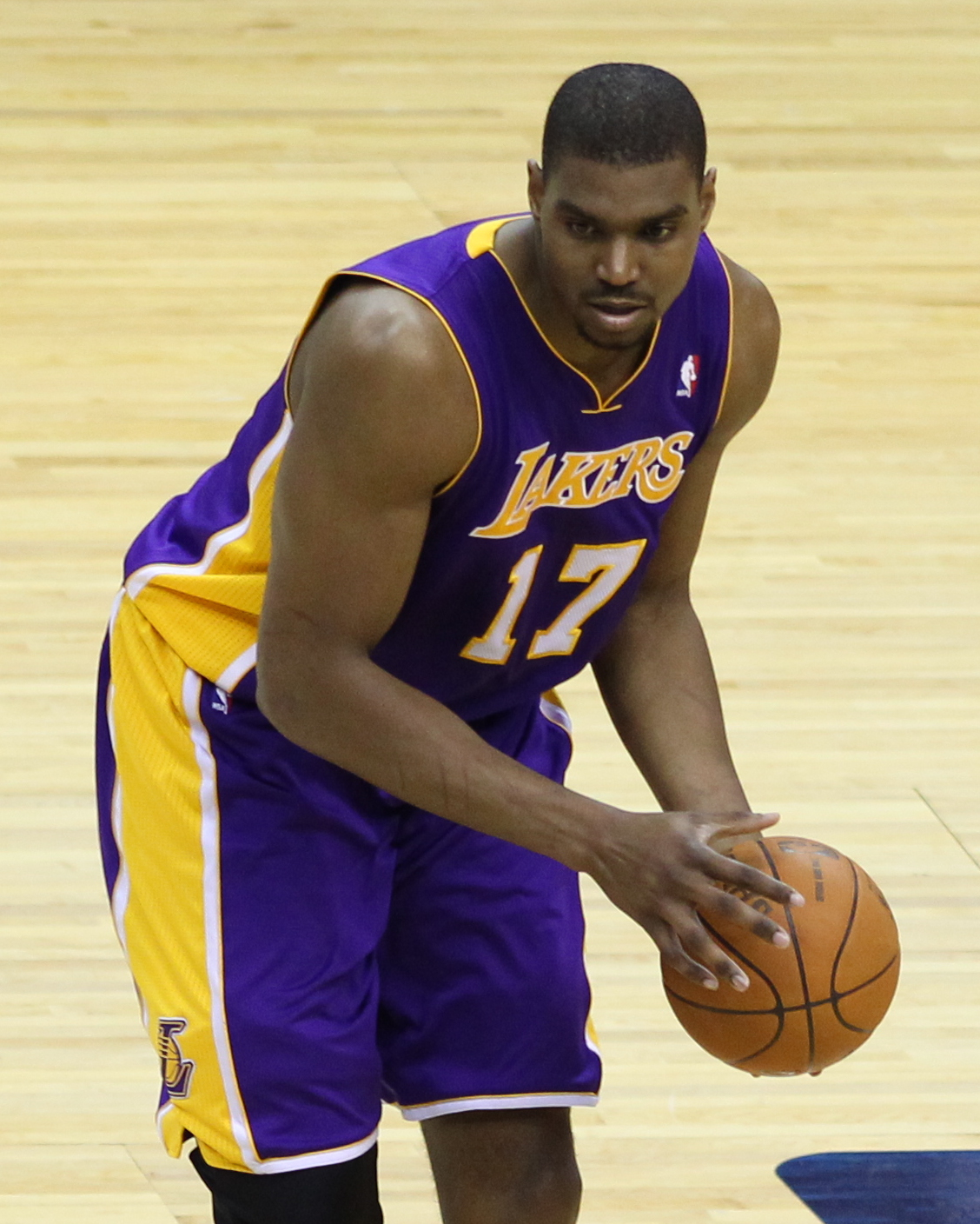 Lakers at Wizards March 7, 2012